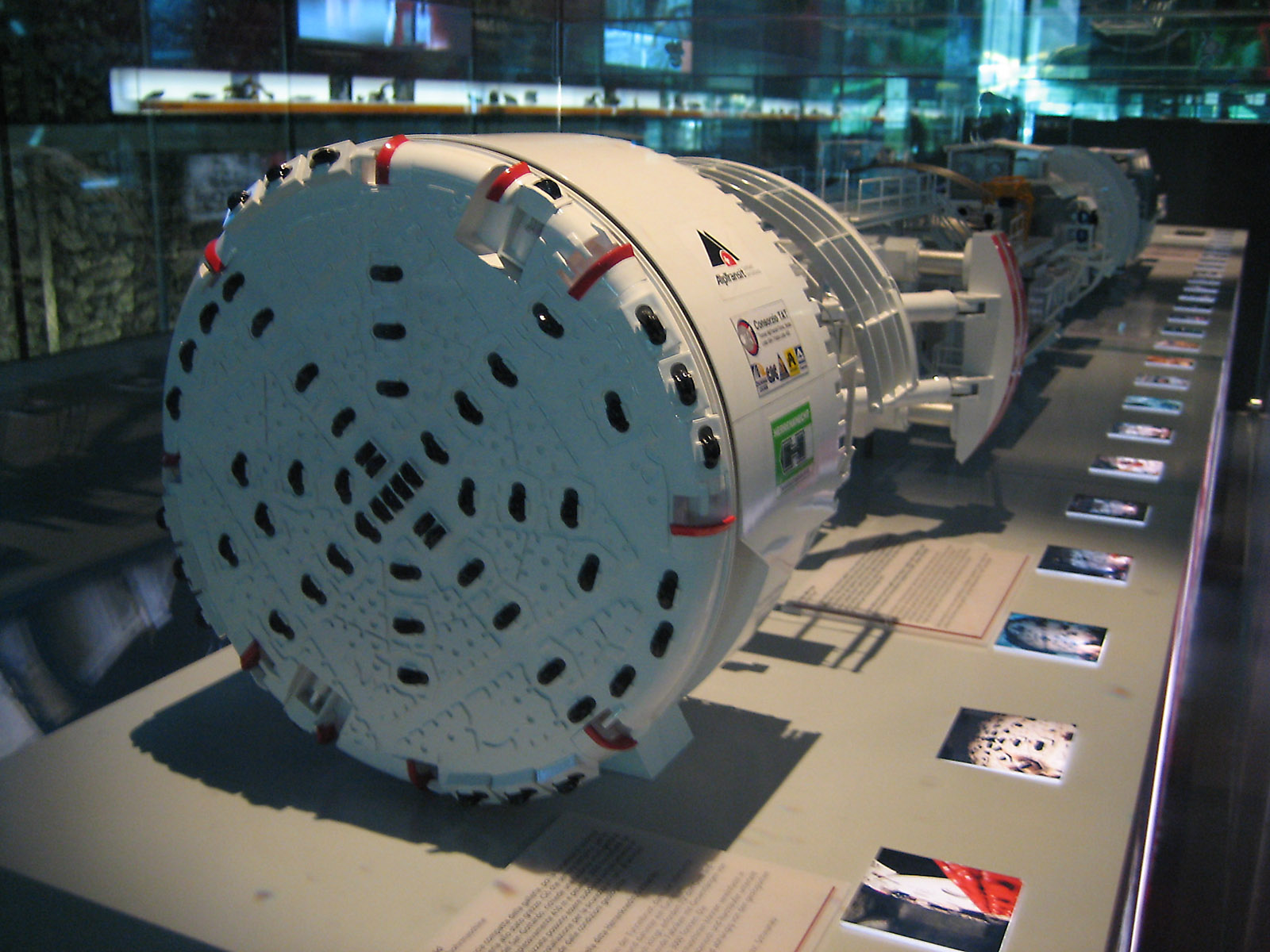 Model of the S-210 Tunnel boring machine used to excavate the southern part of the Gotthard Base Tunnel, Canton Ticino, Switzerland Picture taken at Alptransit Gottardo Sud Visitors Center in Bodio-Pollegio